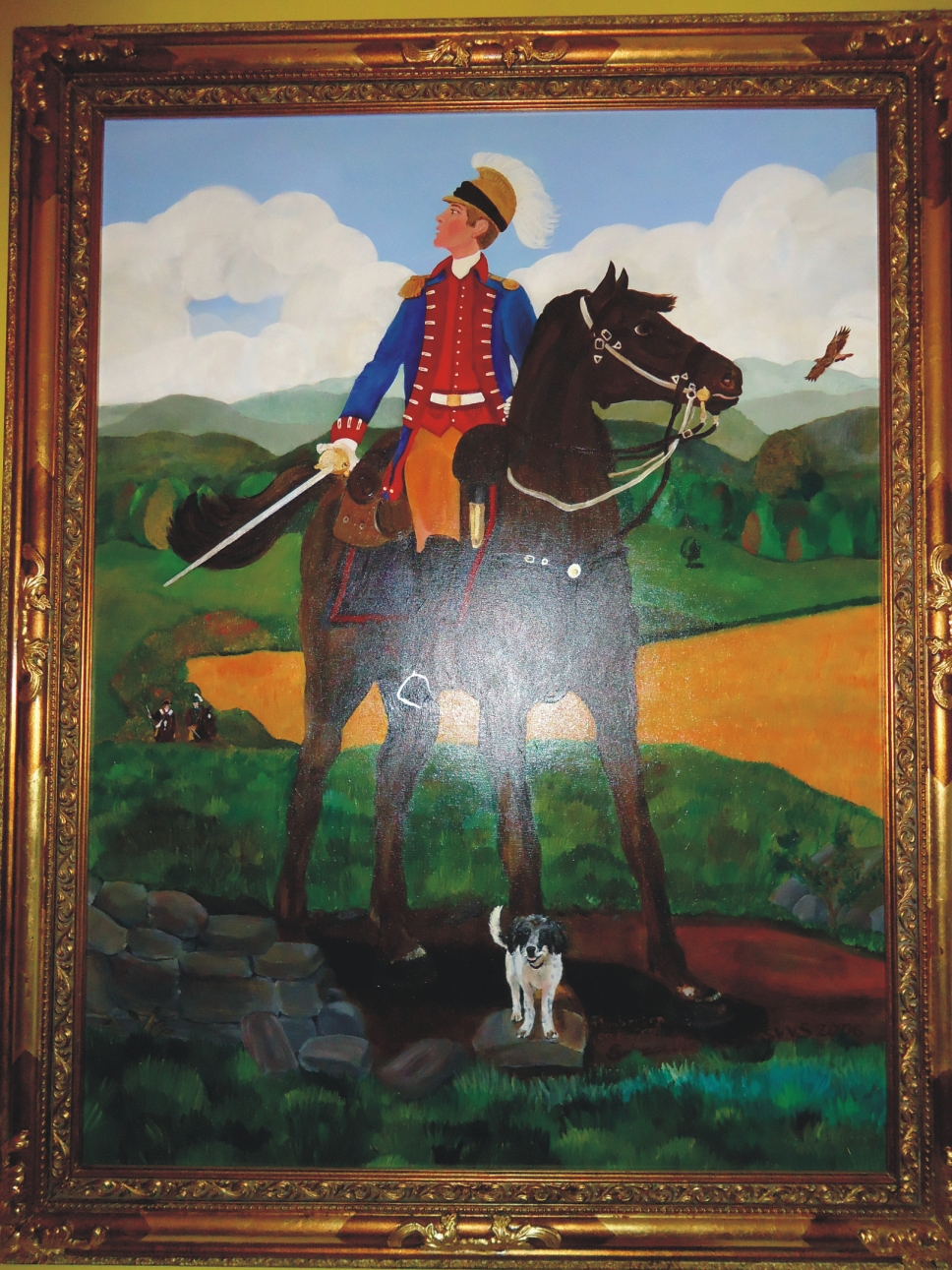 Pemberton on Patrol by Sebastian Volcker. 3'x4' 2005, acrylic on canvas. Rendering of Captain Thomas Pemberton in the 1781 uniform he might have worn (supplying the continental army was an uphill battle, General Nathaniel Green wore buckskins throughout the war yet for his portrait was depicted in blue and buff of the general staff).